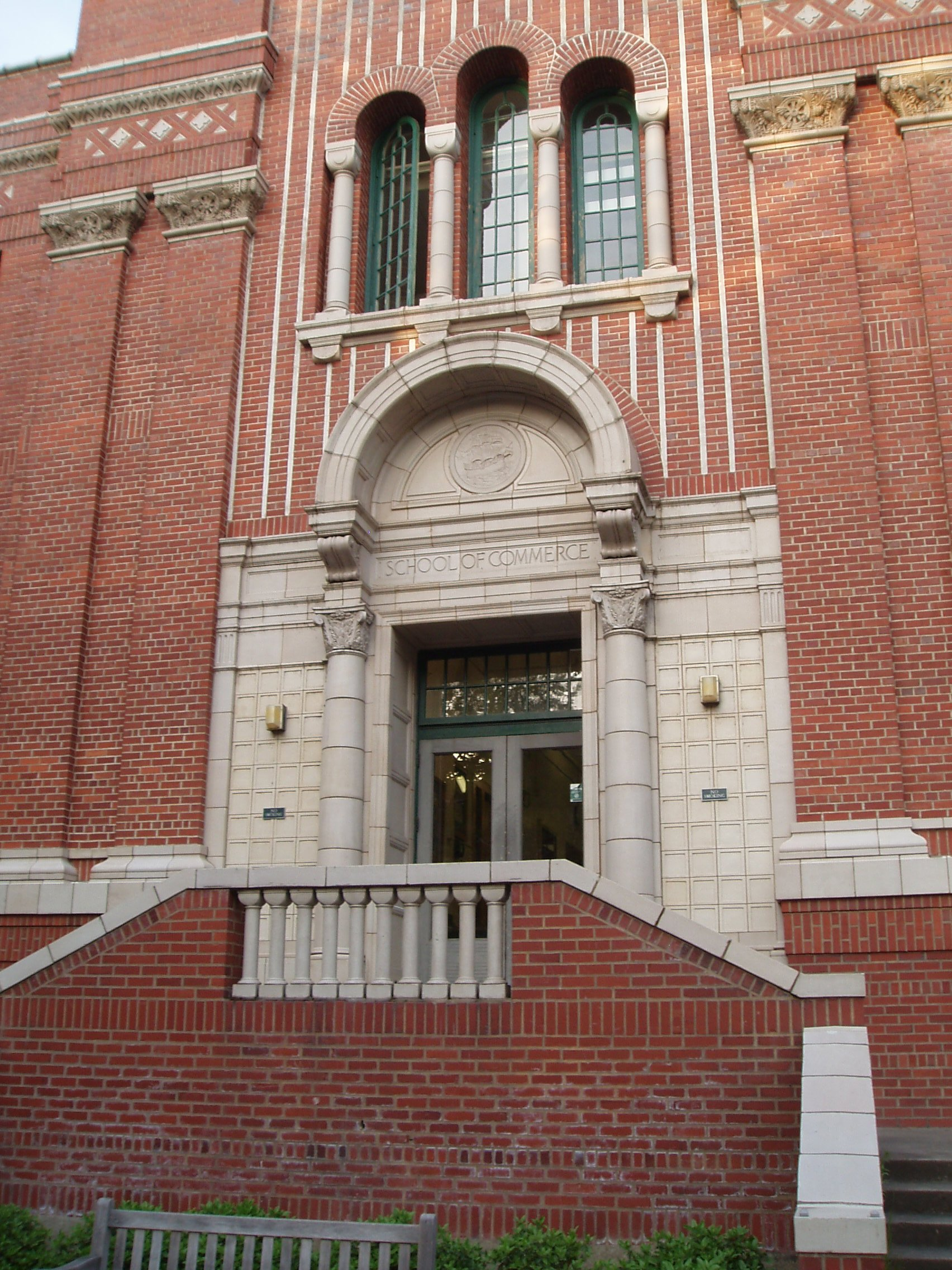 Front view of Gilbert Hall (originally the School of Commerce), on the University of Oregon campus in Eugene, Oregon.